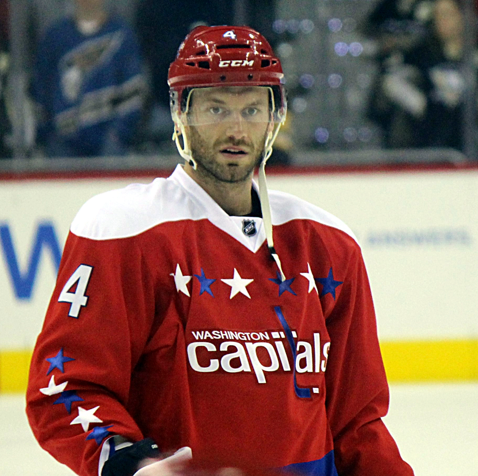 Washington Capitals defenseman Taylor Chorney during a game against the Pittsburgh Penguins, Thursday, April 7, 2016 at Verizon Center in Washington, D.C.